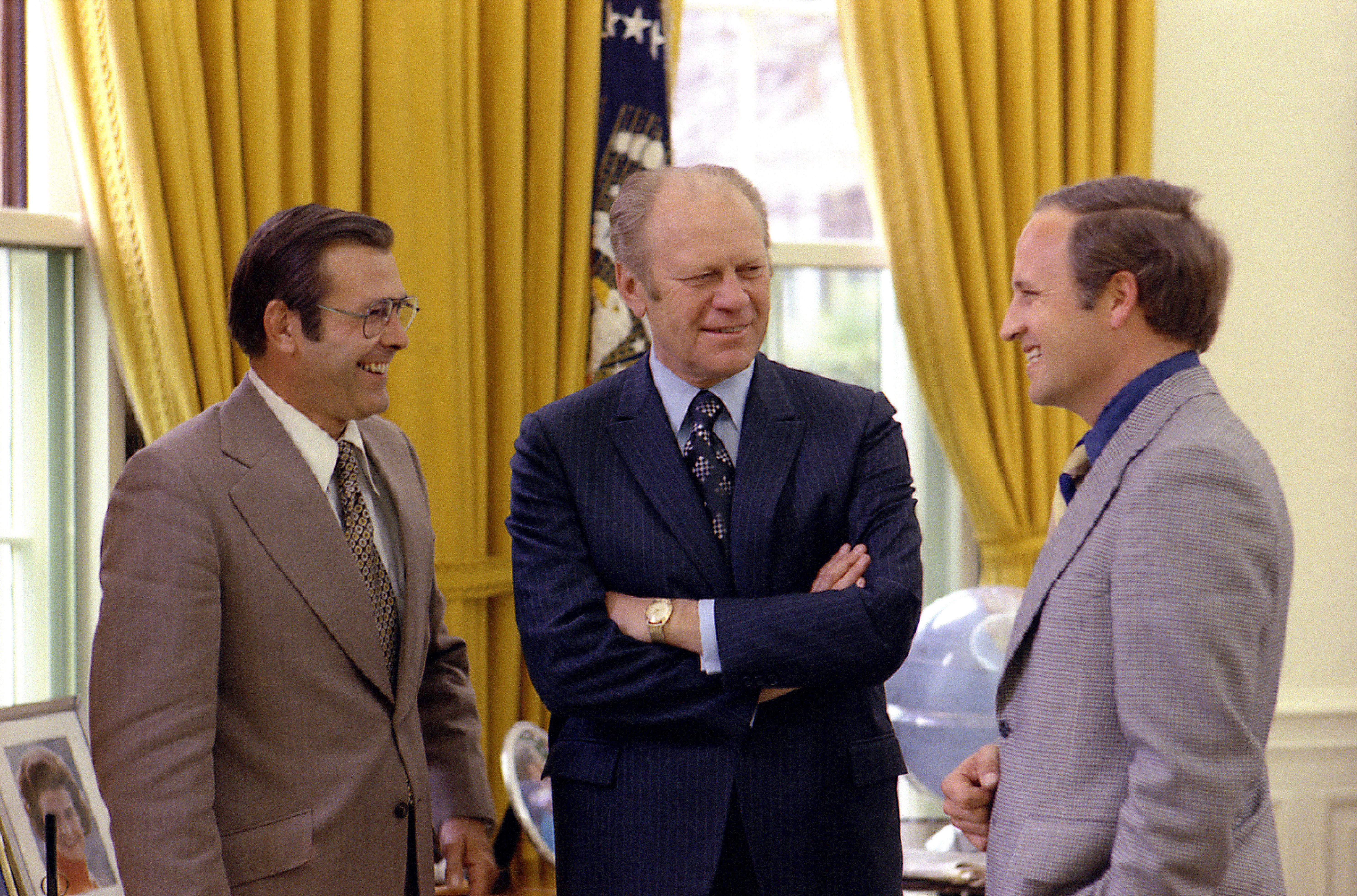 President Gerald Ford (center) meets with Chief of Staff Donald Rumsfeld (left) and then-Deputy-Chief of Staff Dick Cheney (right) in the Oval Office.